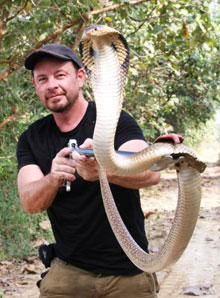 Shawn Heflick holding a Monocled Cobra (Naja kaouthia)